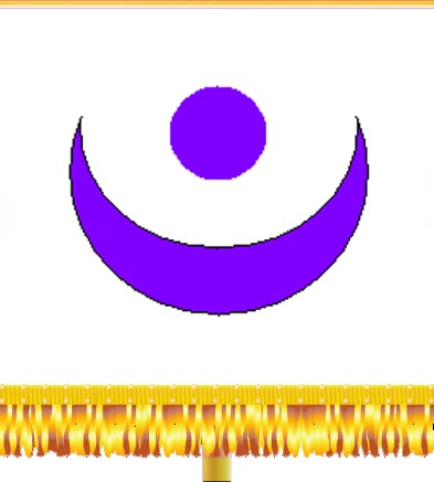 Reconstruction of Carthaginian vexilloid with Tanit symbolism